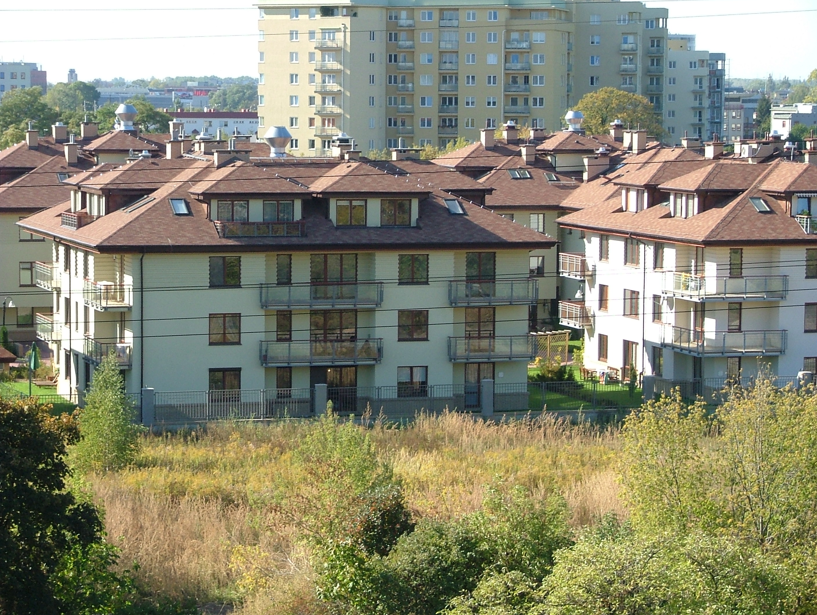 Poland, Przy Parku Street in Warsaw